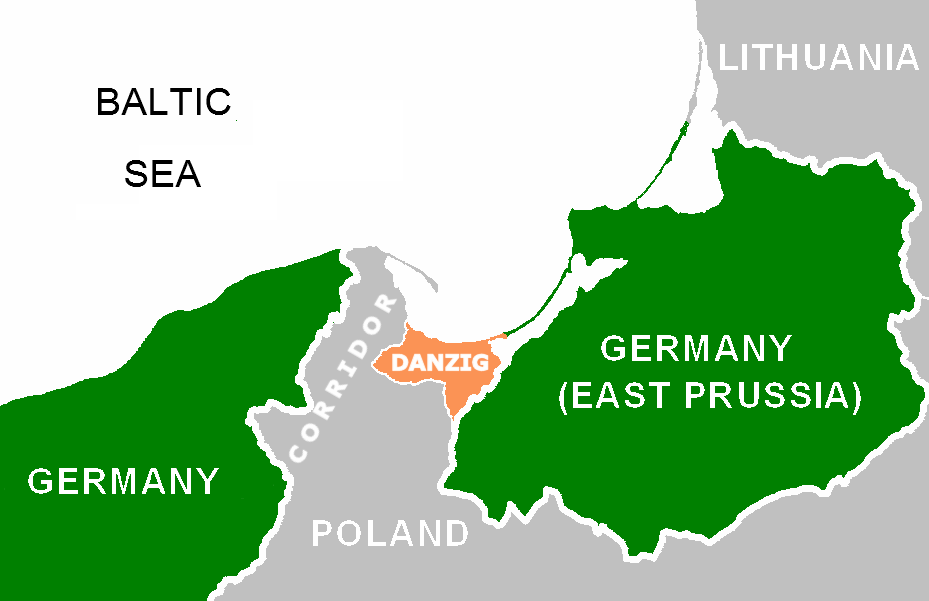 Interwar Danzig corridor, created in the post-WW1 settlement so that Poland would not be landlocked or completely dependent on German ports